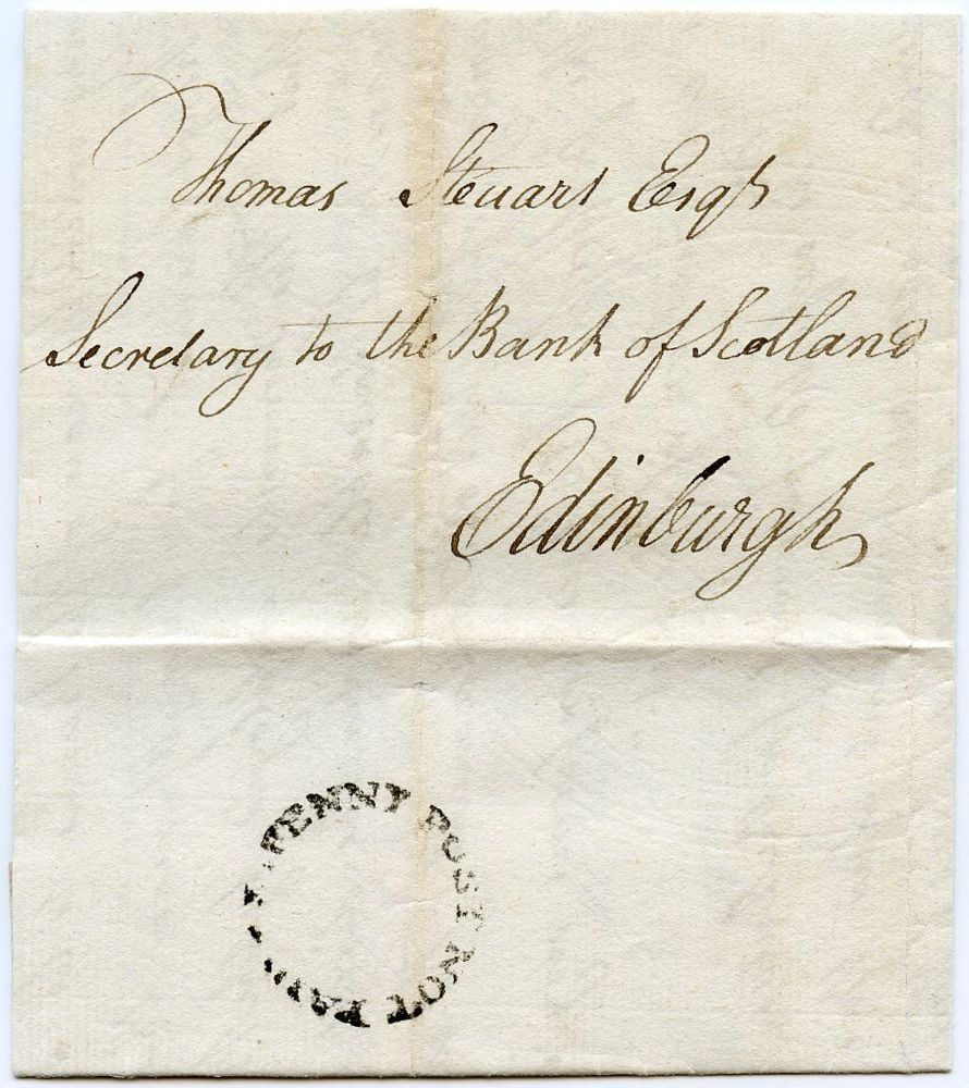 Local entire wrapped posted in Peter Williamson's Edinburgh Penny Post in 1784 - stamped with "E. Penny Post Not Paid” circular handstamp in black ink on the reverse. The service ran from about 1774 until 1793 when it was integrated in the General Post Office.